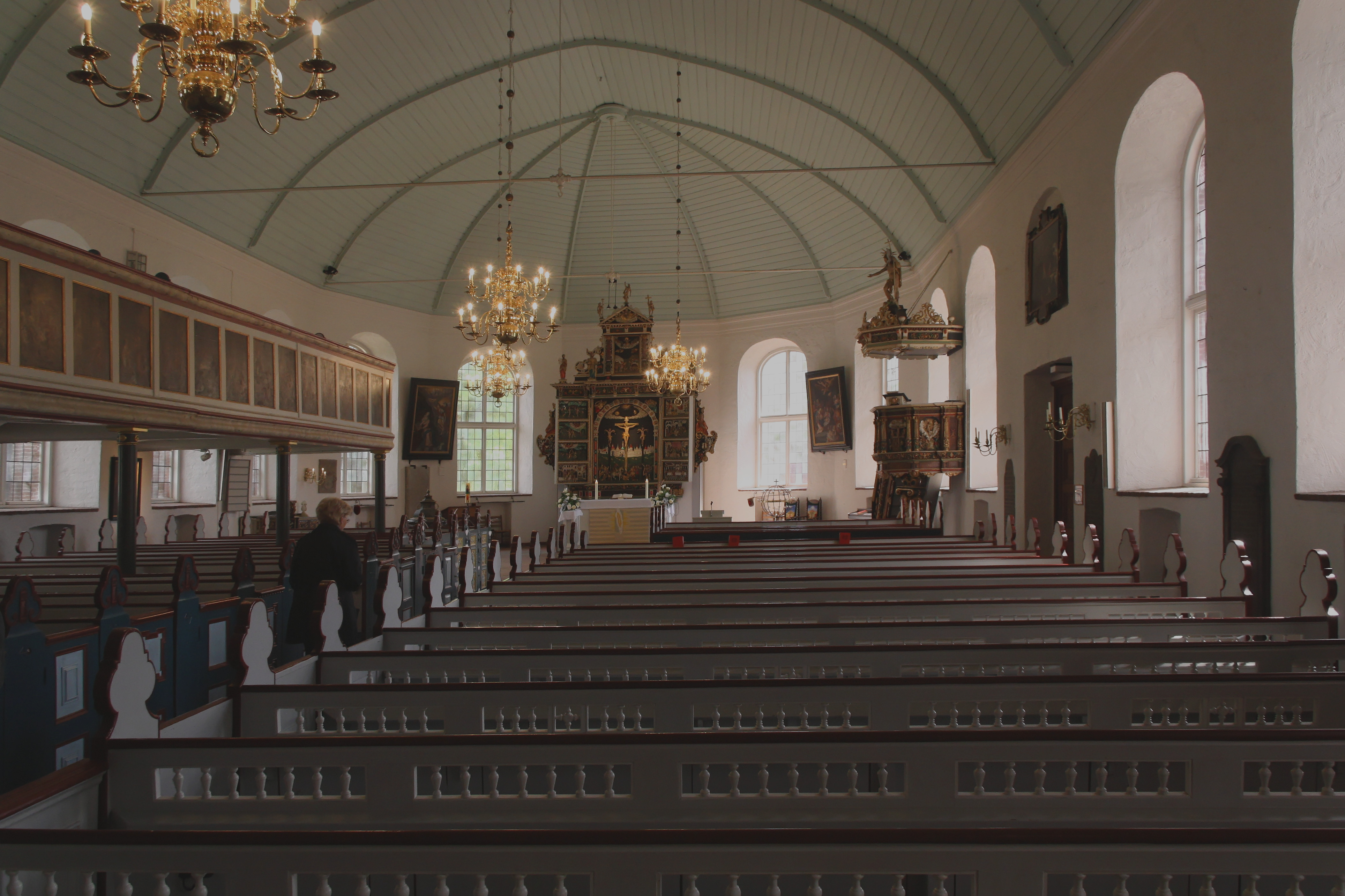 church St.Pankratius, Hamburg-Ochsenwerder, view of the altar